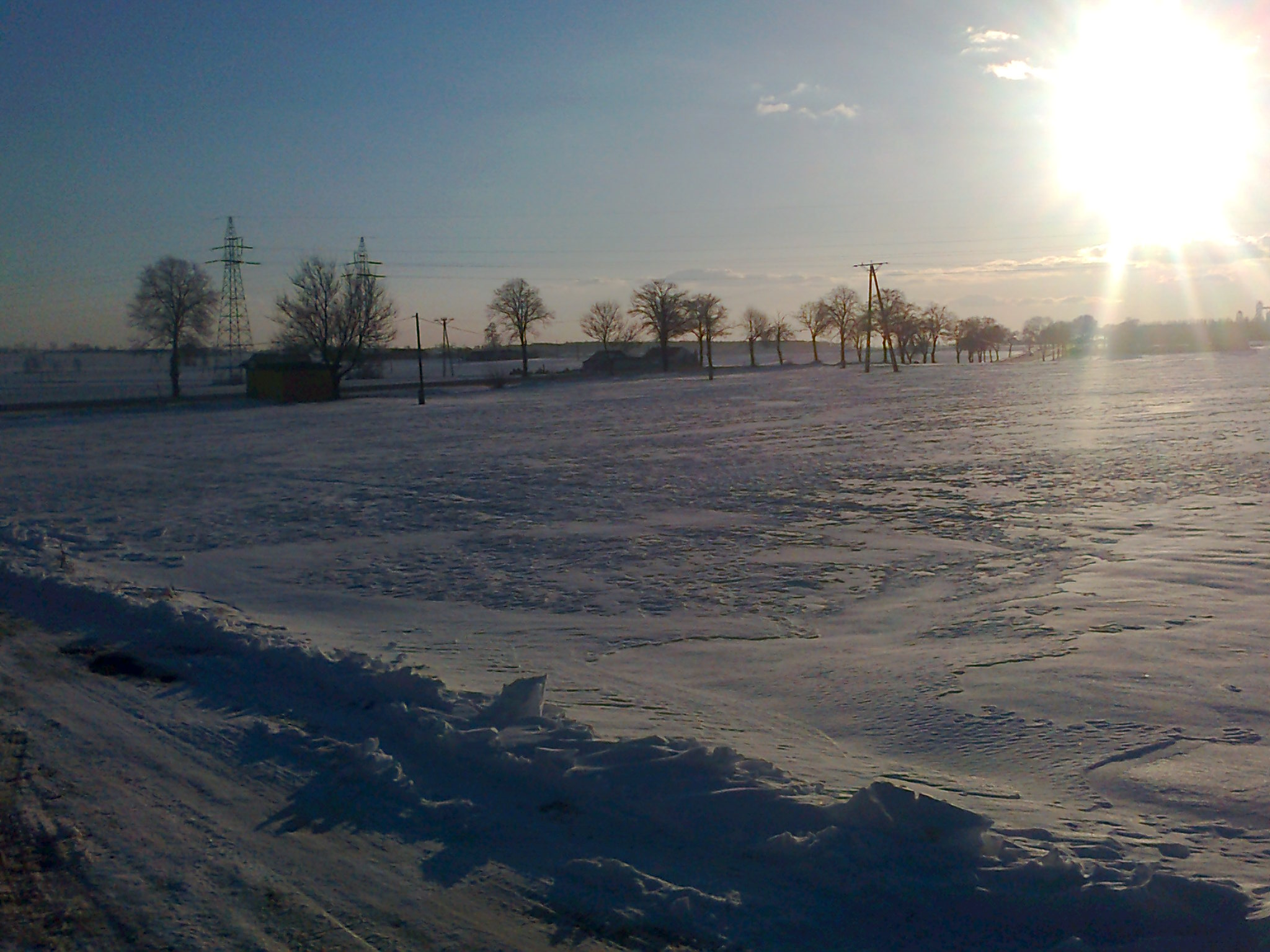 Cząstków